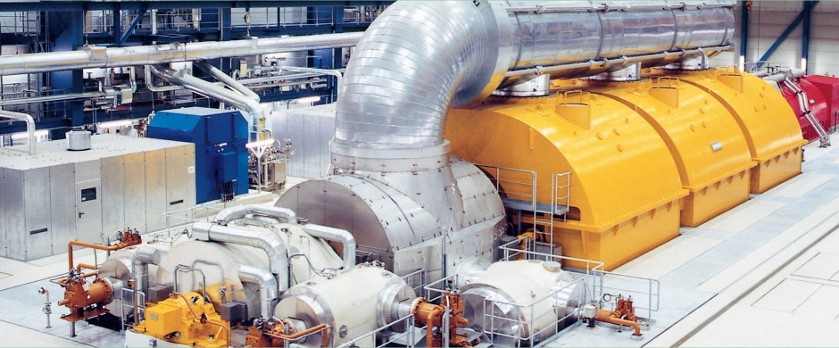 electricalplant